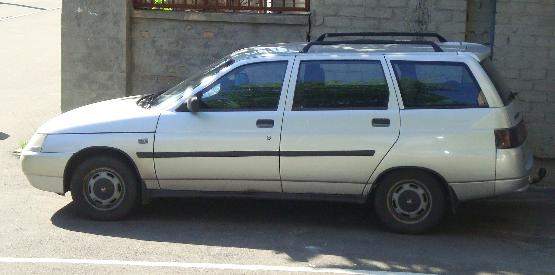 Lada 2111 in Kyiv